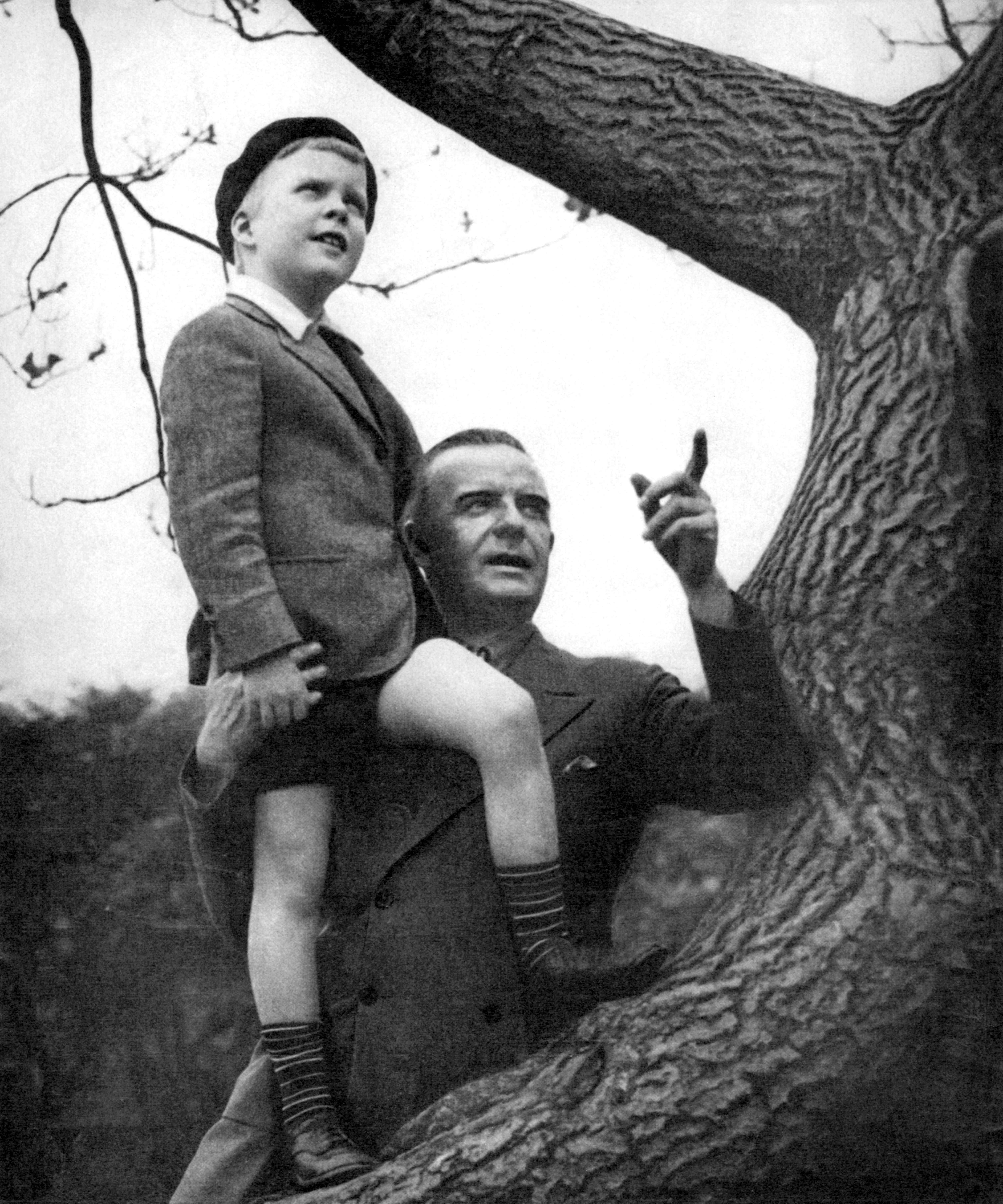 Photograph of Frank Conroy and child actor Peter Holden [Peter Holden Parkhurst] in the original Broadway production of Paul Osborn's On Borrowed Time, cited for excellence in the theatre by Stage magazine Caption reads as follows: Because the season brought us On Borrowed Time, a delightful fantasy about an old man and his grandson, and a Mr. Brink, who might have been called Mr. Death, who was forced to stay in an apple tree. Because Dudley Digges was a gloriously profane old man. Because Frank Conroy was an impeccable Mr. Brink. Because it brought us the most genuine child-actor within memory—Peter Holden, who here consorts with his friend Mr. Brink in Central Park. A spring day, a real tree, and a bird flying …